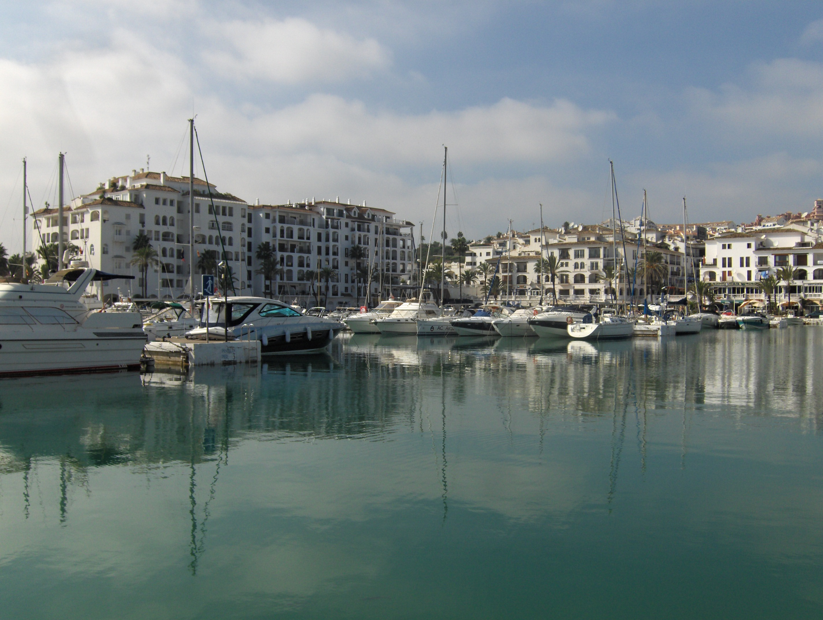 Puerto de la Duquesa, Manilva, Spain.